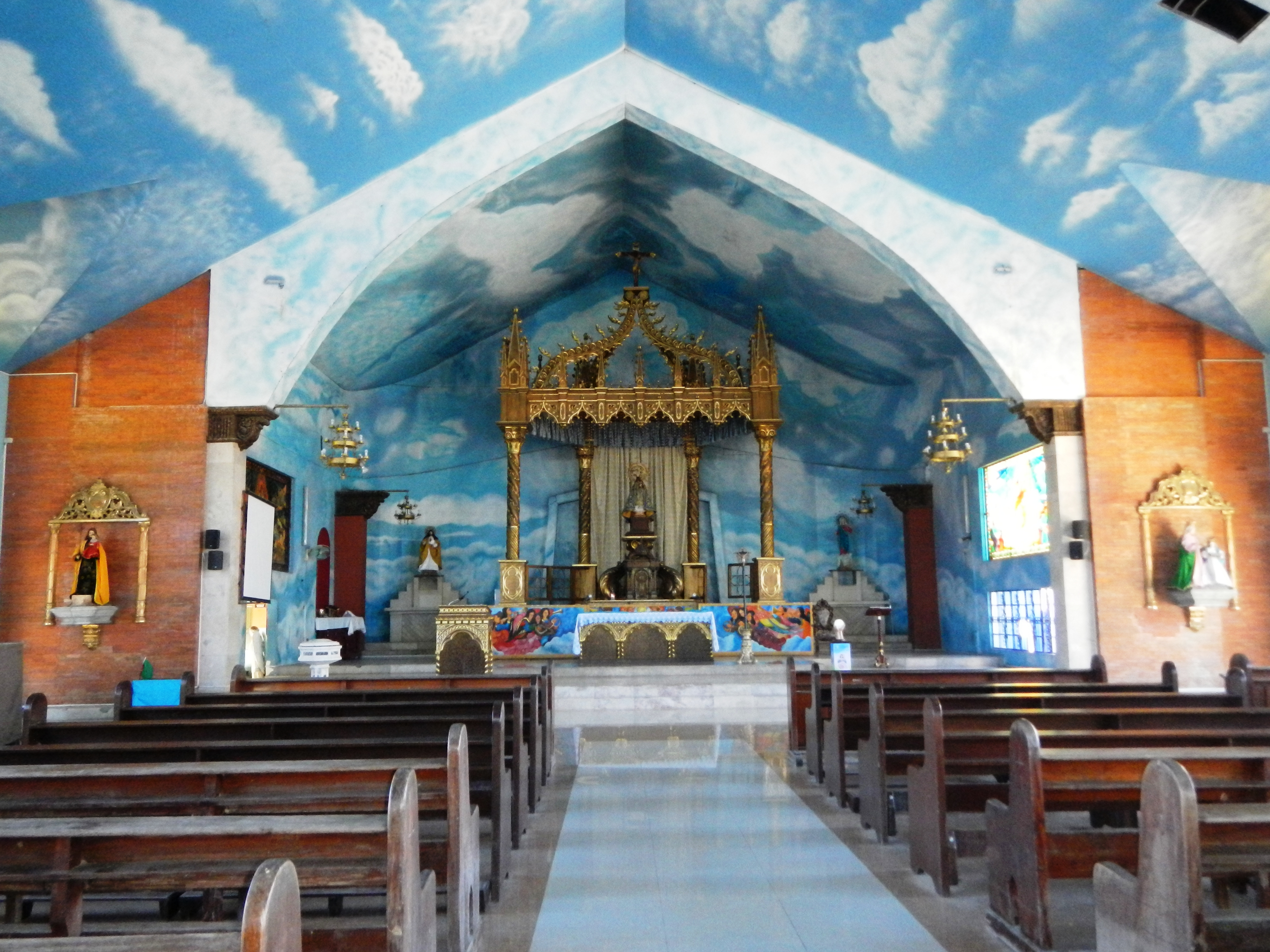 Hagonoy, Bulacan Barangay Santo Rosario, Hagonoy, Bulacan - Hagonoy River by the Bay Walk in front of the Heritage Roman Catholic Diocese of Malolos, Vicariate of St. Anne 0ur Lady of the Most Holy Rosary Parish Church Parish Priest, Fr. Virgilio Cruz - accessed from the Hagonoy RHU-IV, Birthing Clinic part of the adjacent Barangay Hall Complex Compound, beside the Santo Rosario Hagonoy Steel Bridge over the Hagonoy River and Santo Rosario small Fish port.